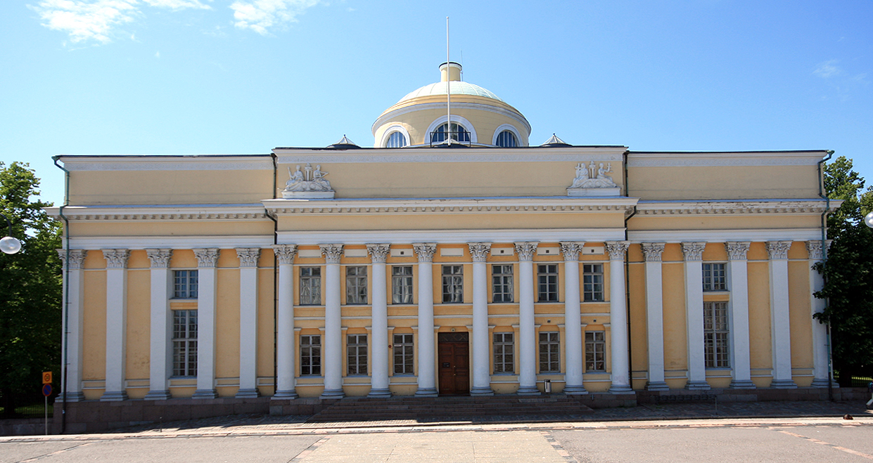 National Library of Finland, Helsinki. Architect: Carl Ludvig Engel, 1840.